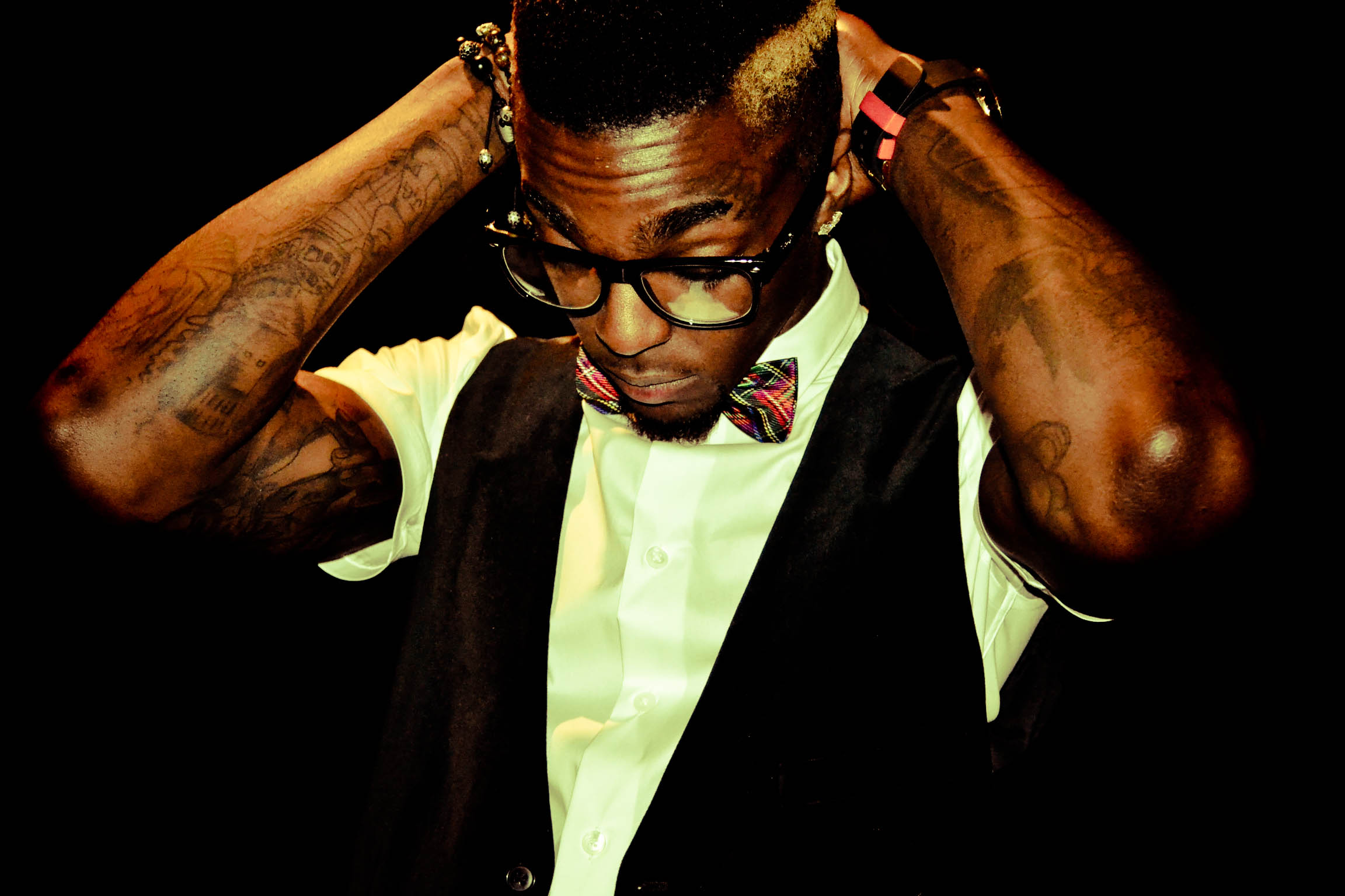 image for Wikipeda.